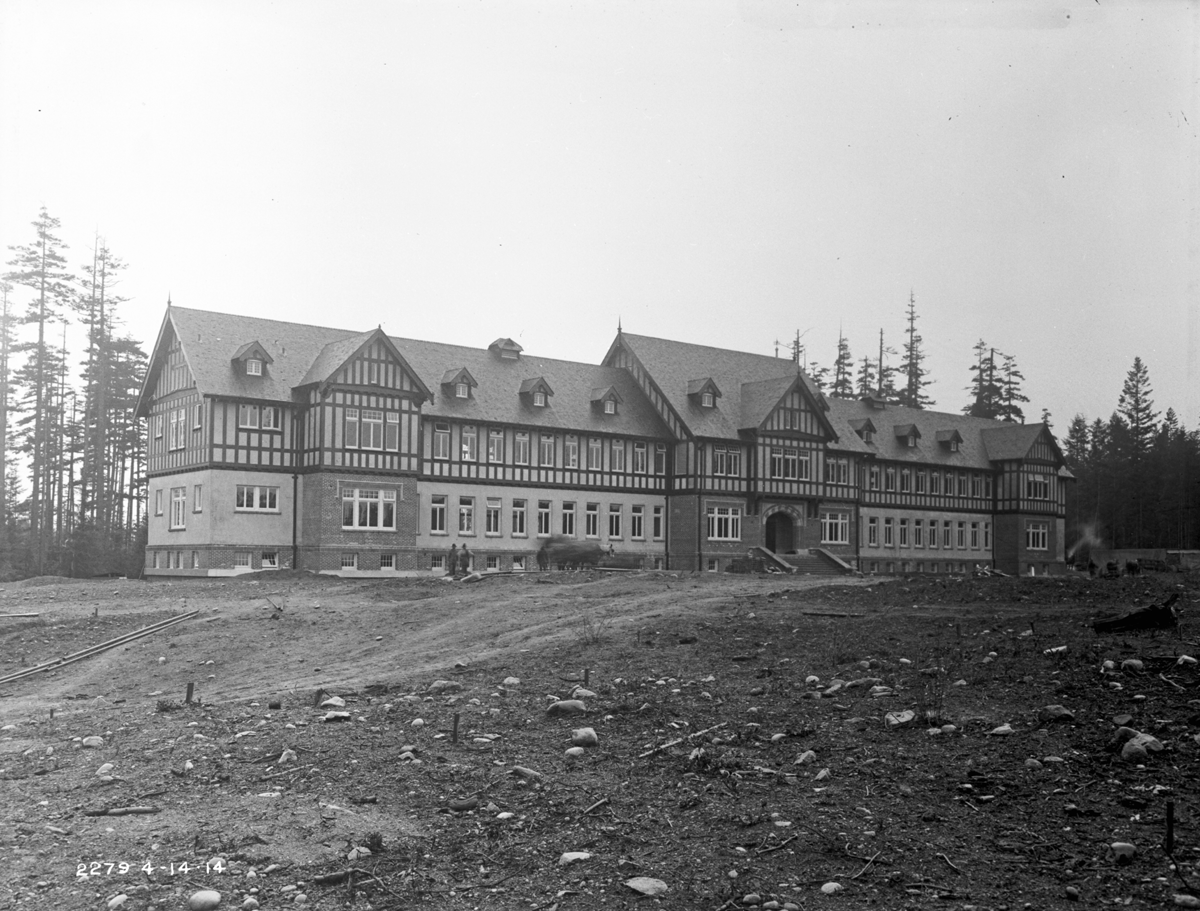 Firland Tuberculosis Hospital, 1914, designed by Daniel R. Huntington. The building in the Richmond Highlands neighborhood of Shoreline, Washington, just north of Seattle, is now King's High School, part of Crista Ministries. Item 141, Engineering Department Photographic Negatives (Record Series 2613-07), Seattle Municipal Archives.